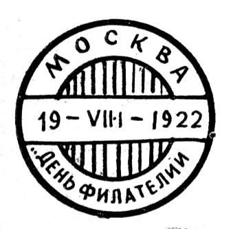 The first Soviet special cancel "Day of Philately", 1922.